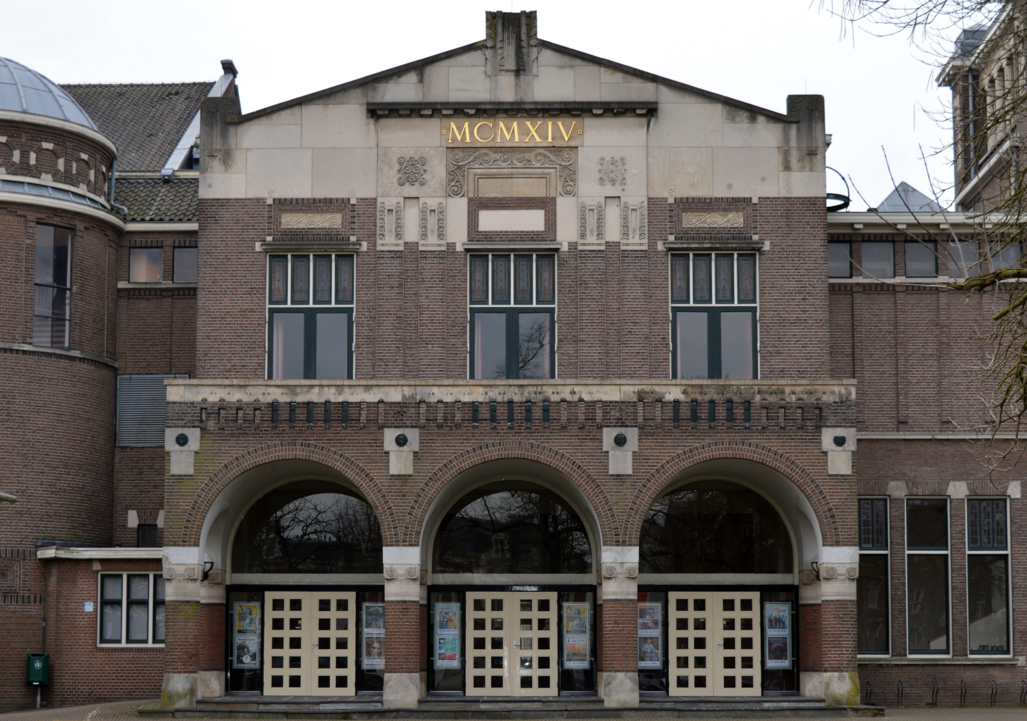 Concertgebouw De Vereeniging Nijmegen Entrance